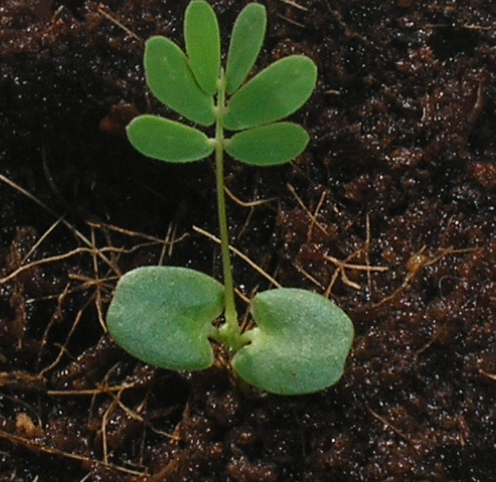 Photo of a sprouted Mimosa Pudica